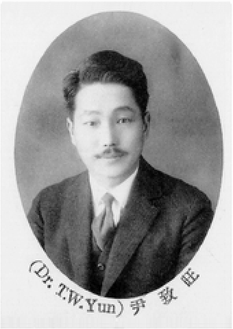 Yun Chiwang, severance college's yearbooks 1929